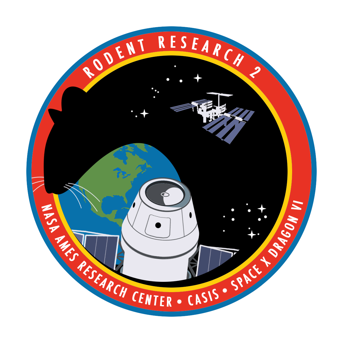 This is a NASA mission patch for the second experiment conducted with the Rodent Research Hardware System. Intend on using it in as soon to be submitted article that is currently in my sandbox detailing the Rodent Research Hardware System and the research it was used in.